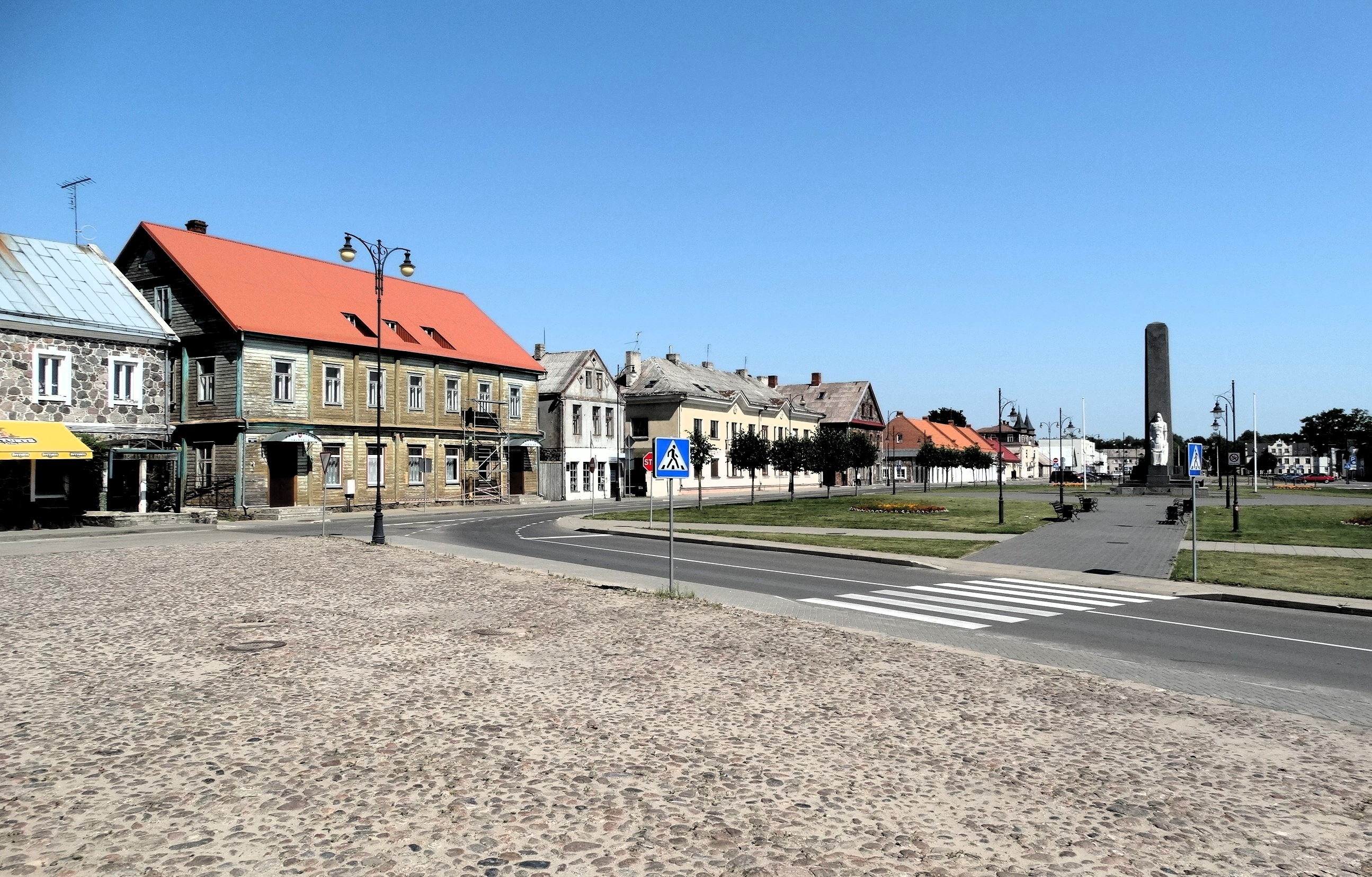 Independence Square, Rokiškis, Lithuania